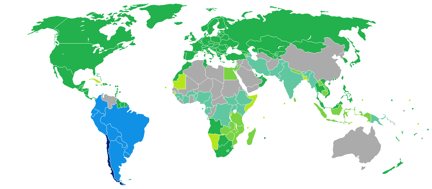 Visa requirements for Chilean citizens Chile ID card travel Visa free access Visa on arrival eVisa Visa available both on arrival or online Visa required